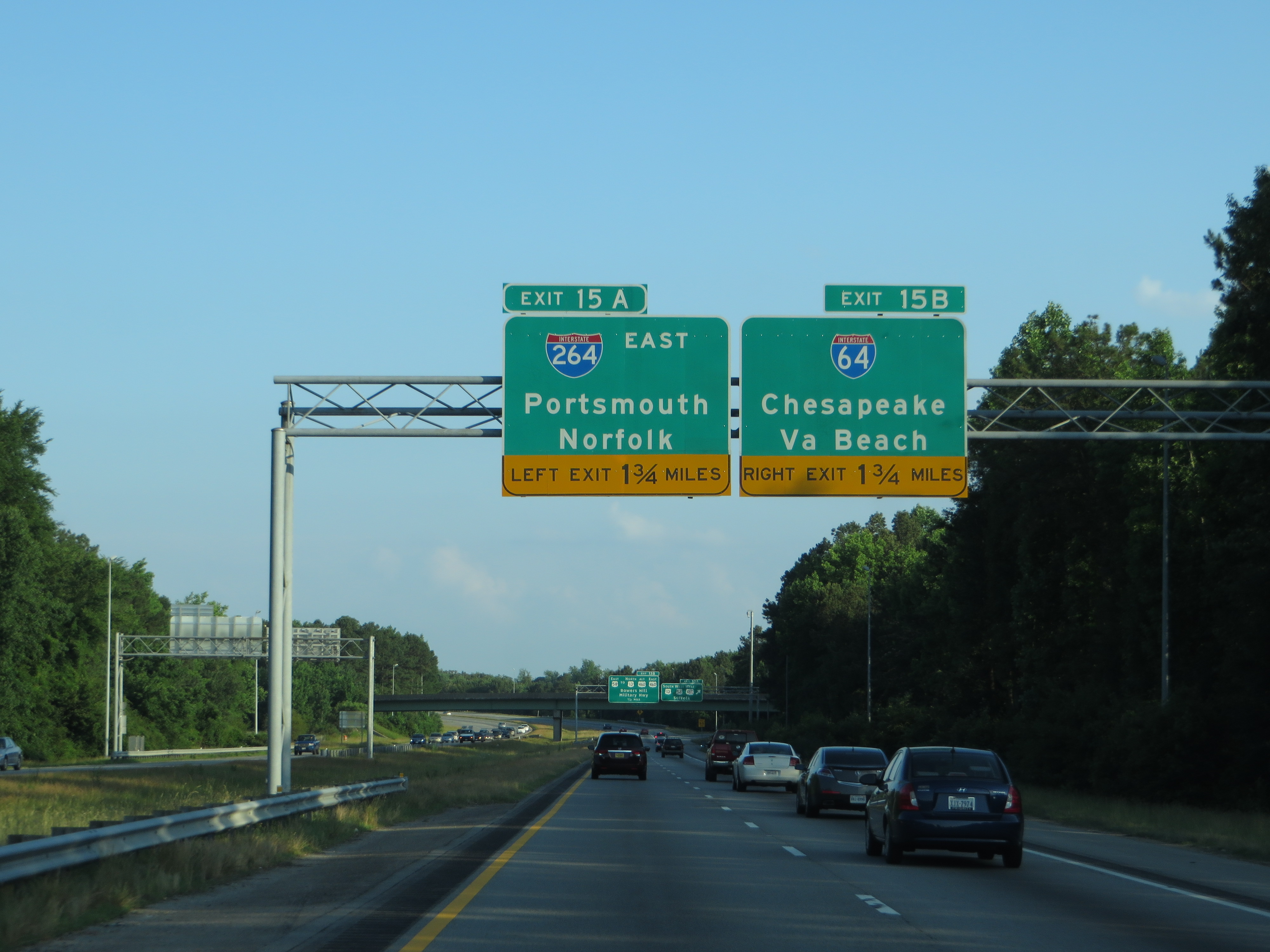 Signage on I-664 southbound for the Bowers Hill Interchange of the Hampton Roads Beltway (I-64) and I-264, as well as US Routes 58/460/13